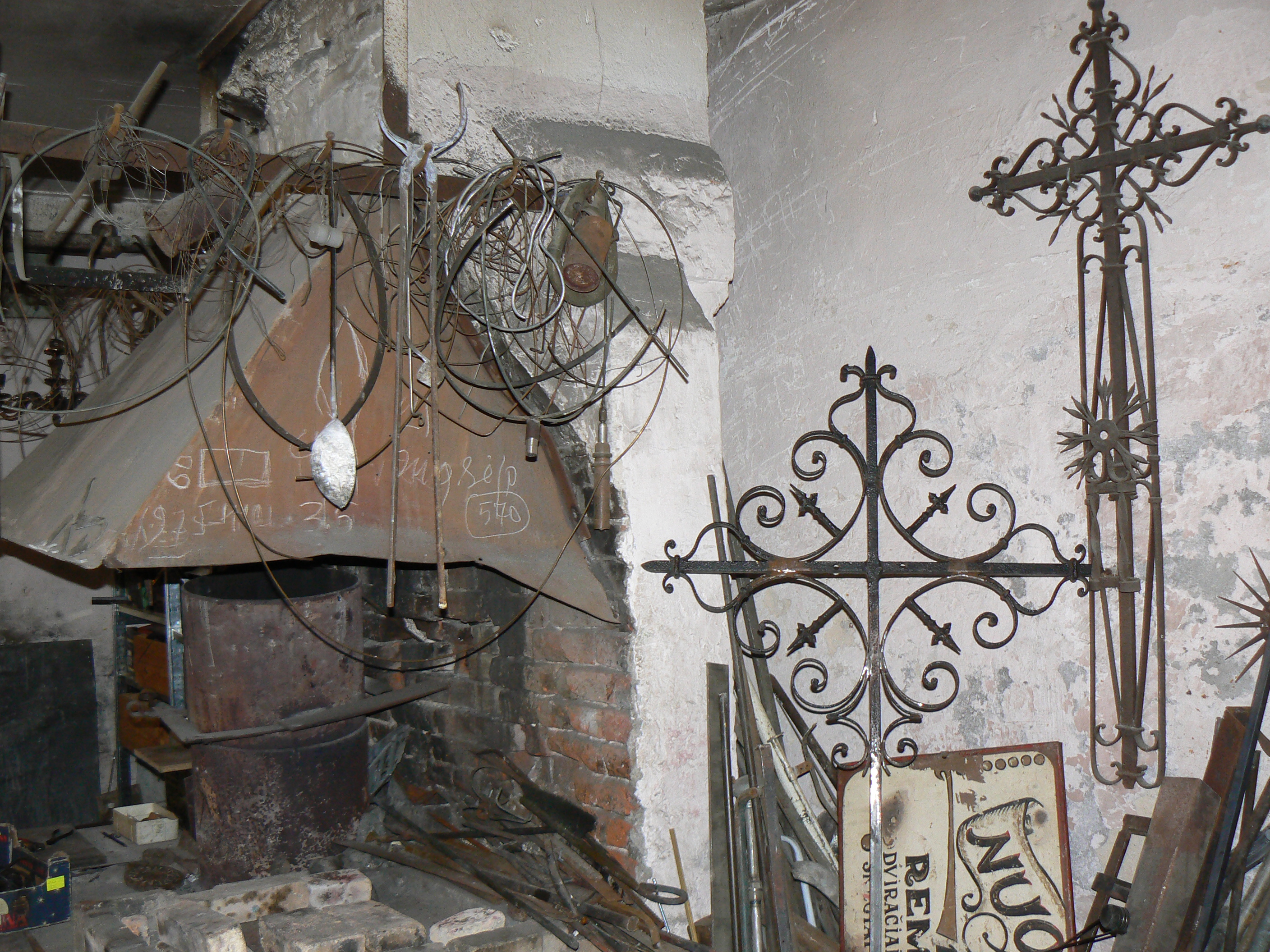 Forge in Museum of Forgery in Klaipėda